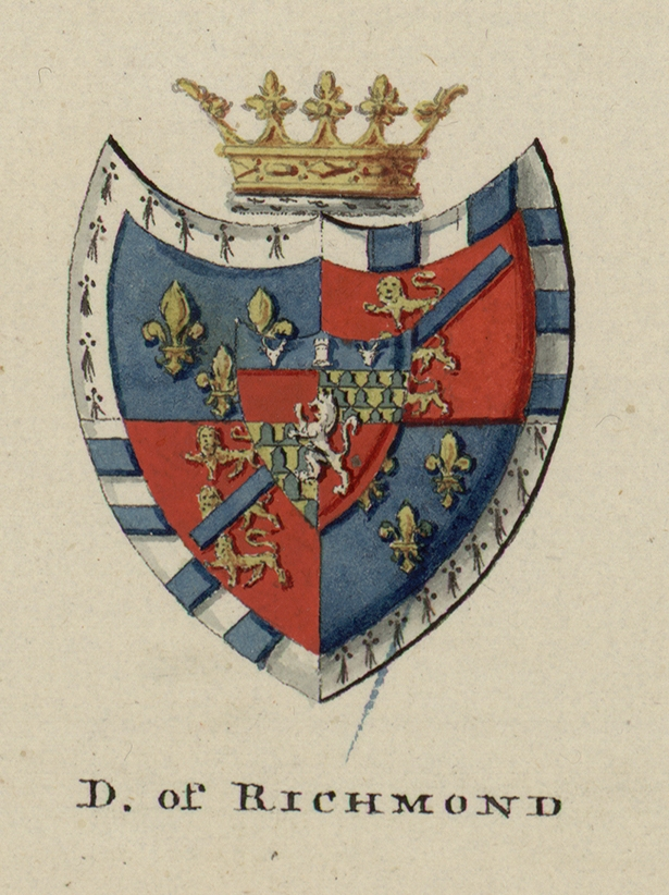 An image from a set of 8 extra-illustrated volumes of A tour in Wales by Thomas Pennant (1726-1798) that chronicle the three journeys he made through Wales between 1773 and 1776. These volumes are unique because they were compiled for Pennant's own library at Downing. This edition was produced in 1781. The volumes include a number of original drawings by Moses Griffiths, Ingleby and other well known artists of the period. Thomas Pennant (1726-1798)